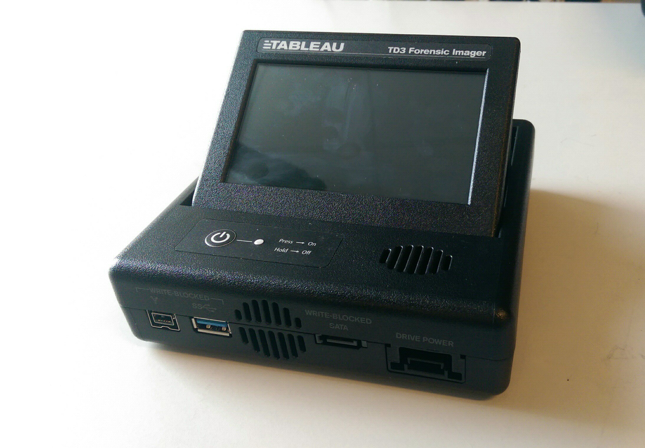 Tableau TD3 Forensic Imager